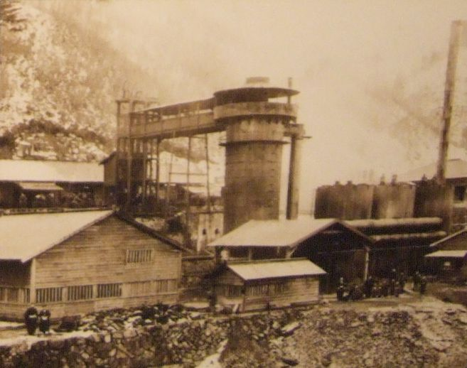 Tanaka_iron_works,_Kamaishi_mine